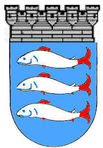 Coat of arms of Laholm, Halland, south Sweden. According to blazon, the fish is salmon. I added a mural crown to it also. Colored version of public domain image from Nordisk familjebok